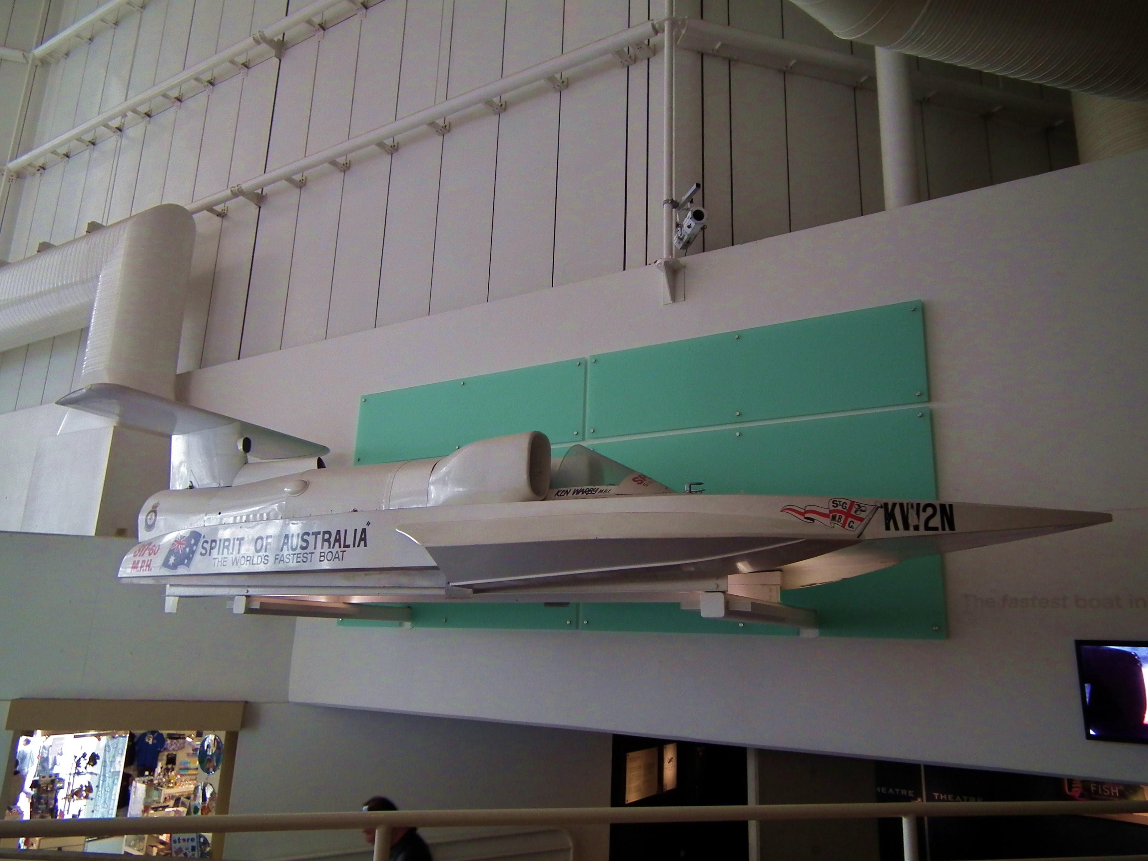 1974 three-point hydroplane Spirit of Australia in the National Maritime Museum, Darling Harbour, New South Wales